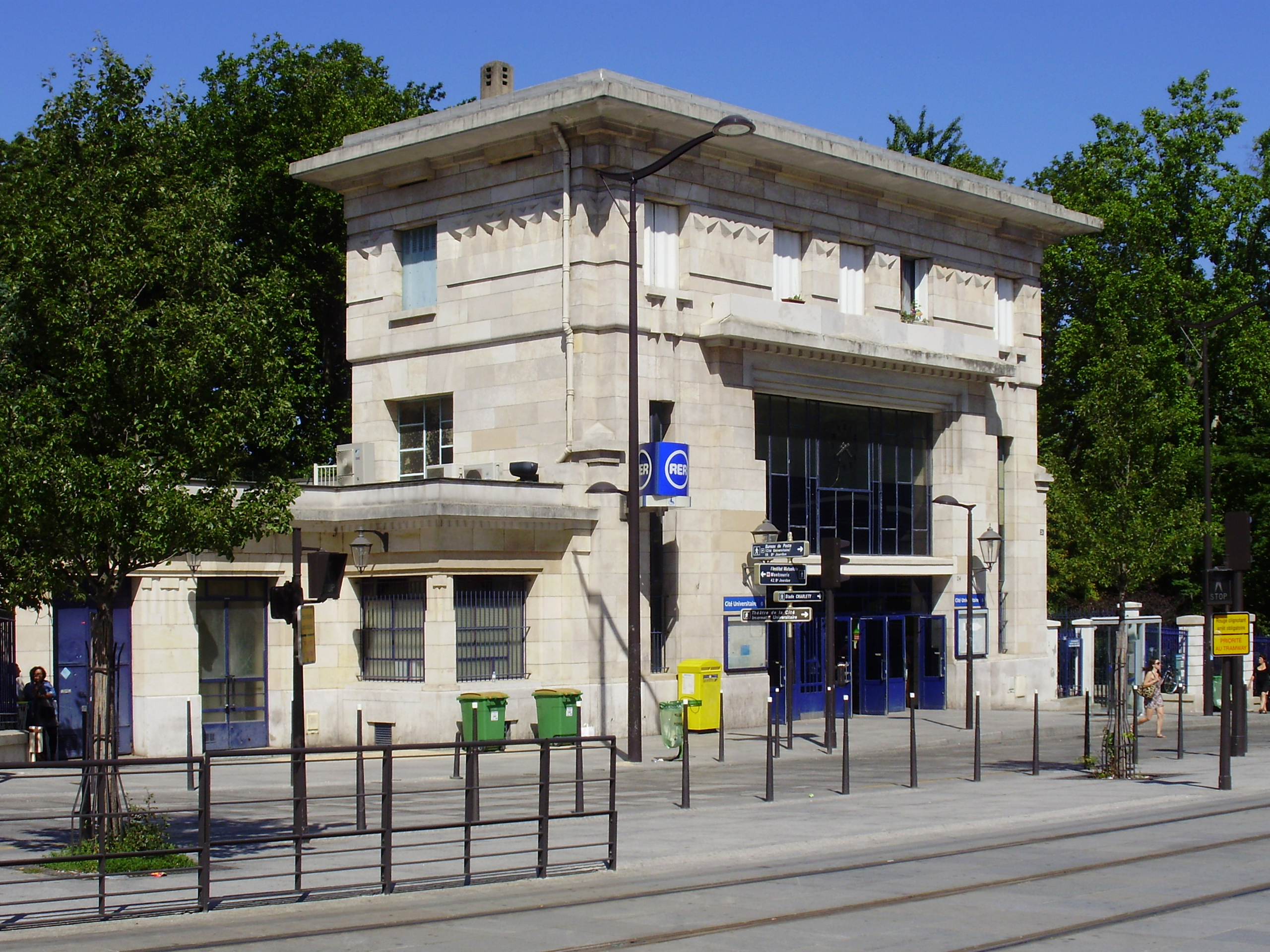 Cité universitaire station, in Paris 14e arrondissement (entrance)